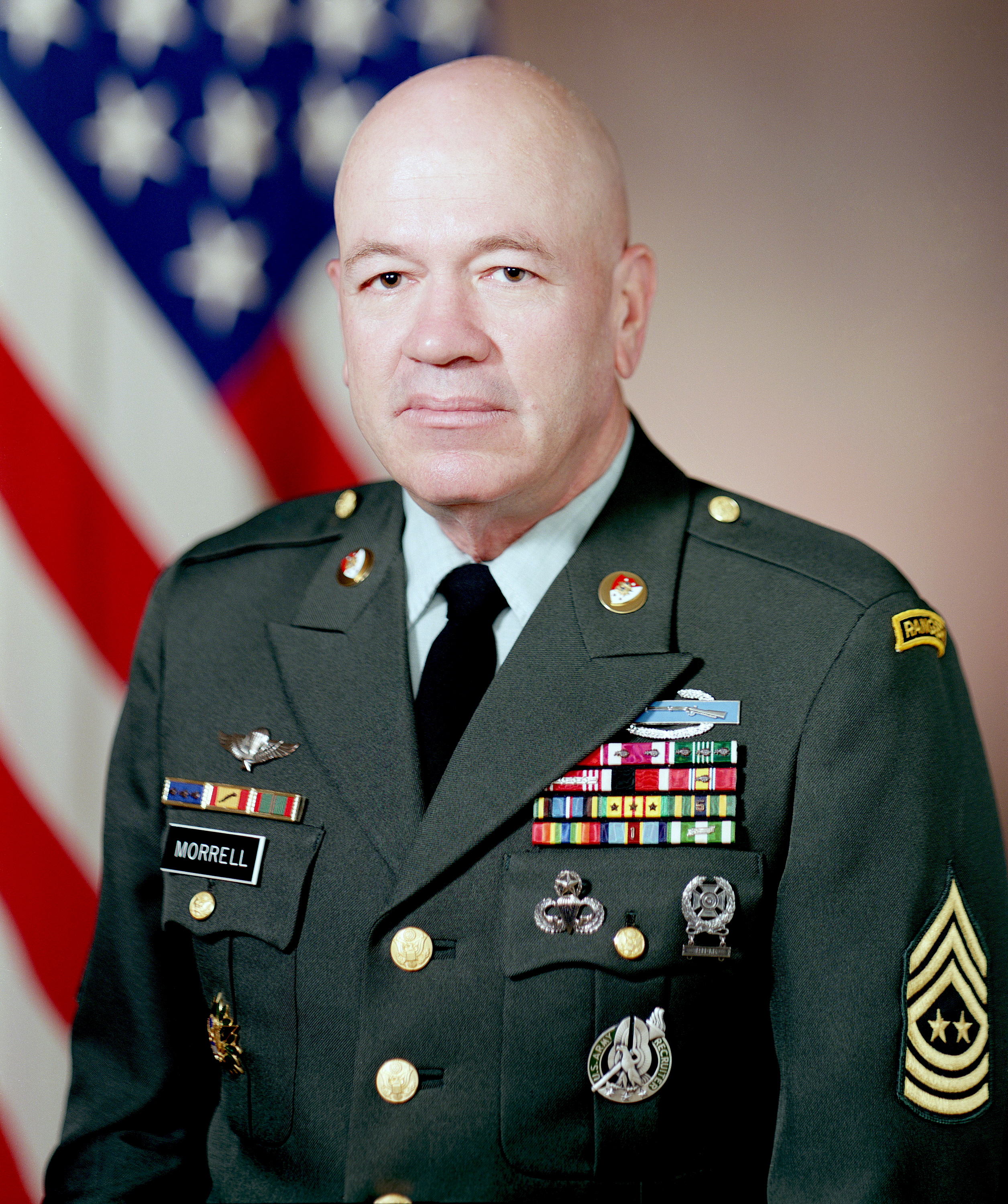 SMA Gene Morrell from [1]